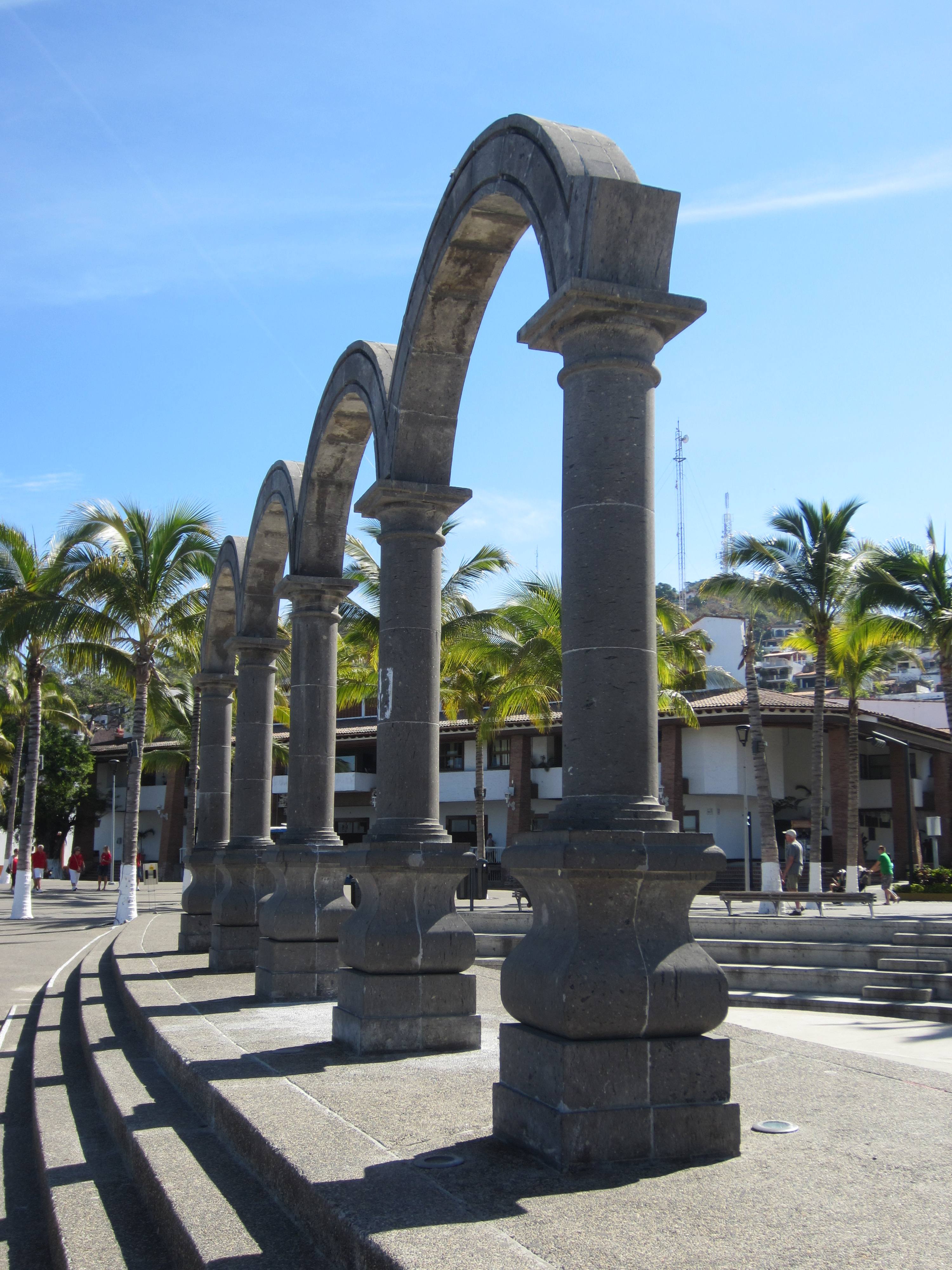 Malecón, Puerto Vallarta (2014)